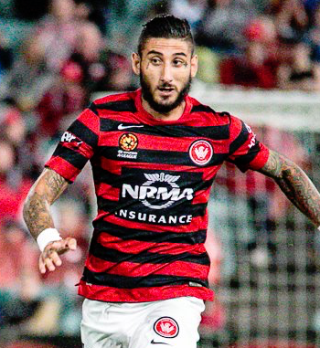 Photo of Kerem Bulut playing for the Western Sydney Wanderers against Melbourne Victory on 13 March 2015.